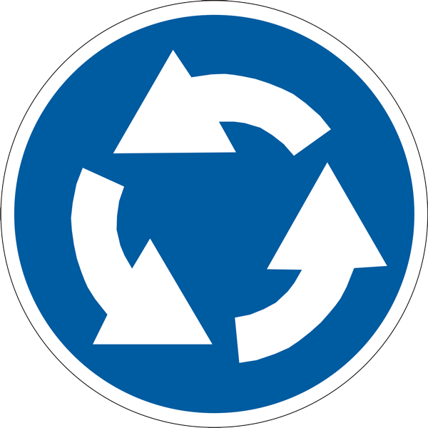 Roundabout.